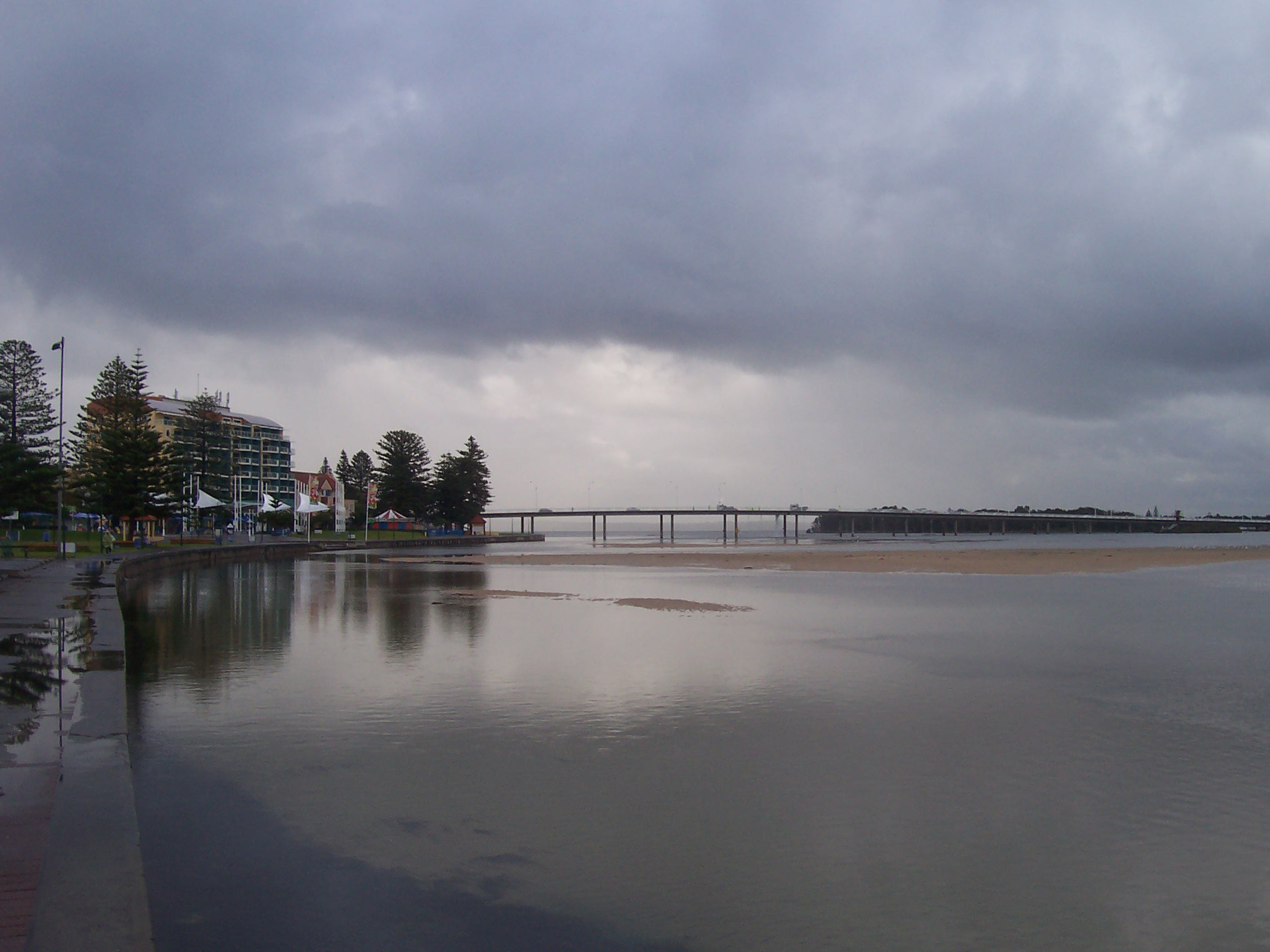 This picture was taken from Marine Pde Carpark at The Entrance looking over The Entrance channel with The Entrance Bridge in the background.